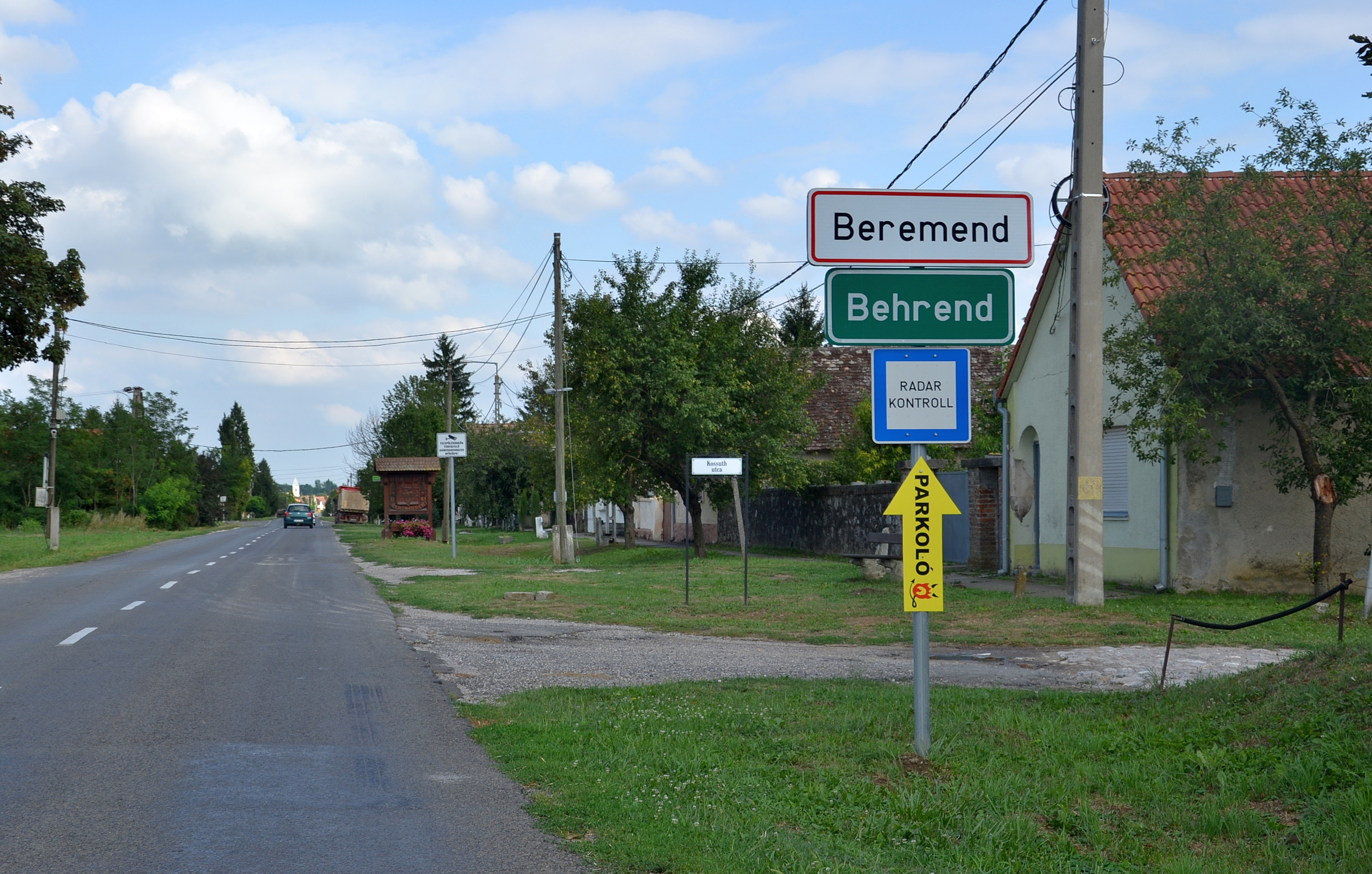 Beremend (Behrend), village in Hungary